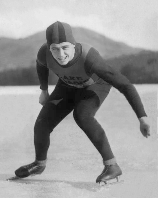 1929 Press Photo Speed skater Jack Shea ready for a race - net32323